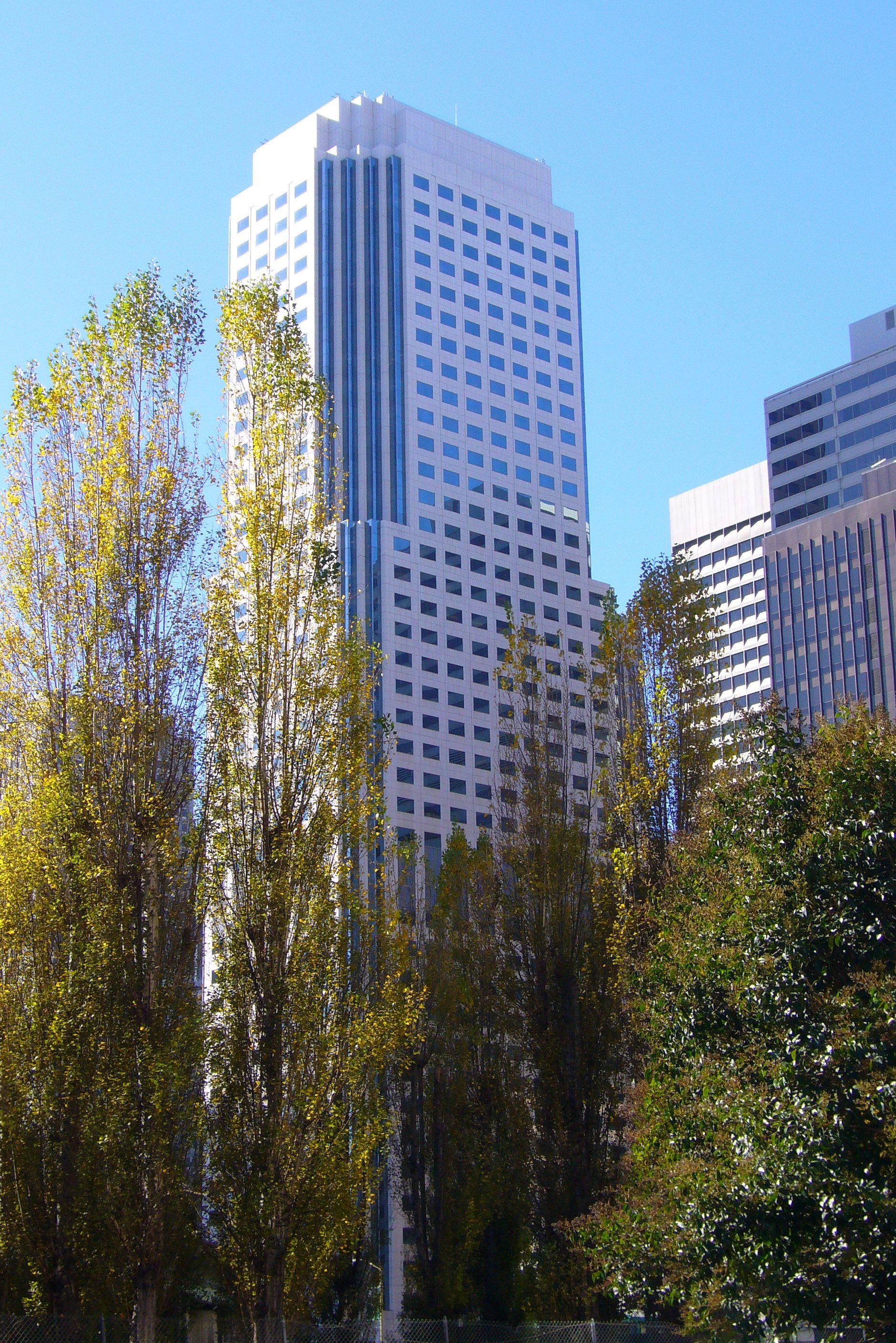 50 Fremont